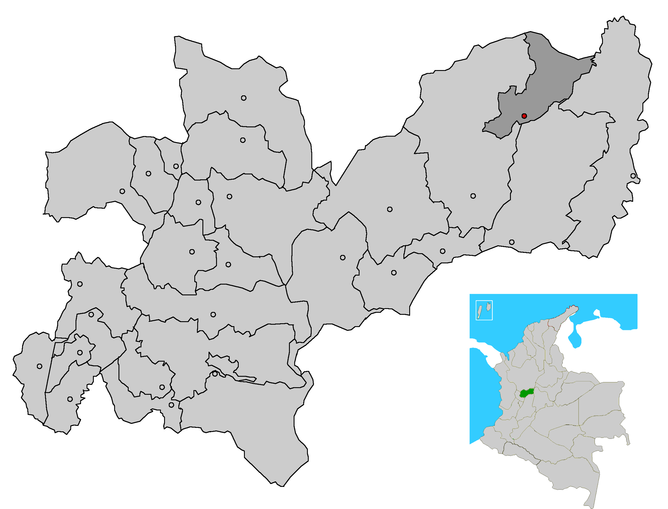 Image depicting map location of the town and municipality of Norcasia in Caldas Department, Colombia